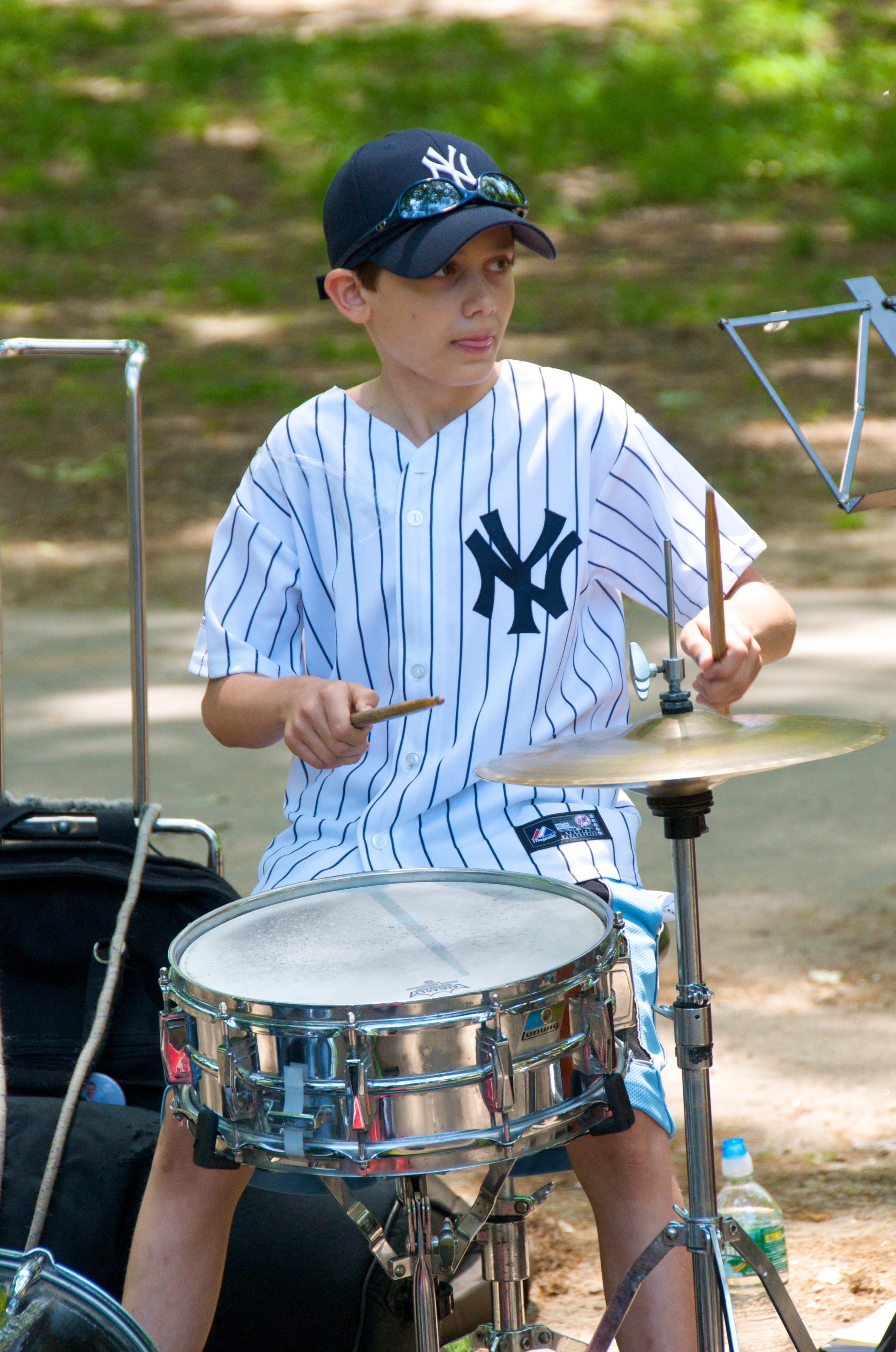 Memorial Day was a sunny pleasant day in New York City, and I decided to take a stroll through a portion of Central Park -- from 92nd Street to 72nd Street. These are pictures that I took inside the park, plus a few more as I walked back home at the end of the afternoon...